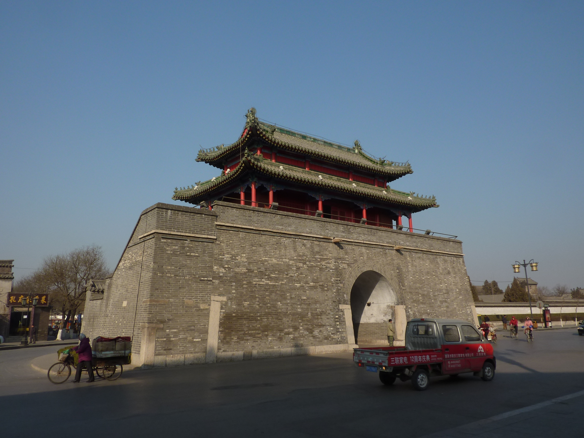 The Drum Tower (Gulou) of Qufu, seen from the SE (from across Gulou St).